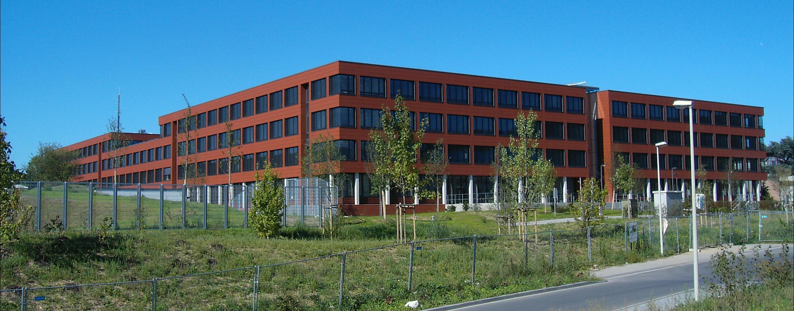 Police station house in Bonn-Ramersdorf.